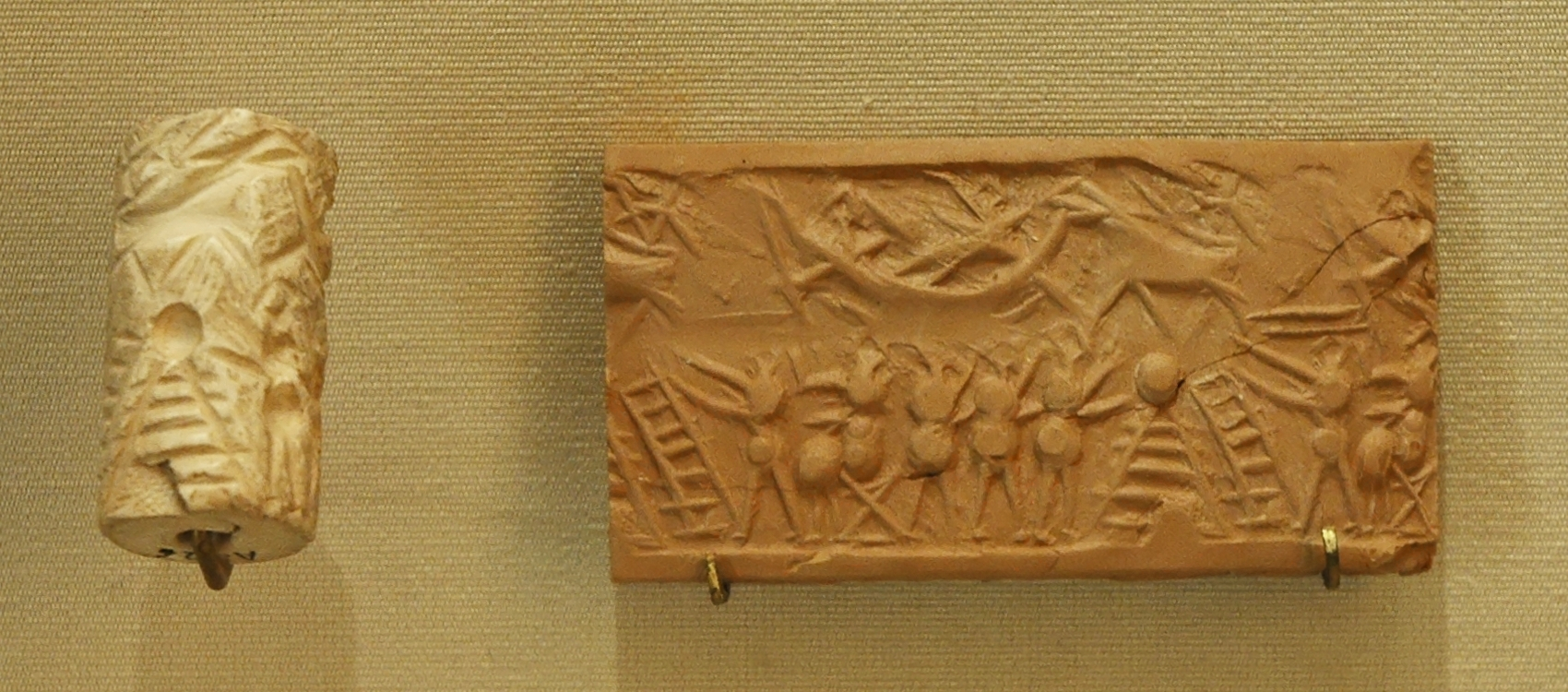 Cylinder seal and imprint: on bottom, cult scenes—five characters go towards a pyramid-shaped building; on top, the god-ship. Shell-(?), Early Dynastic III (ca. 2600–2340 BC), Mesopotamia.